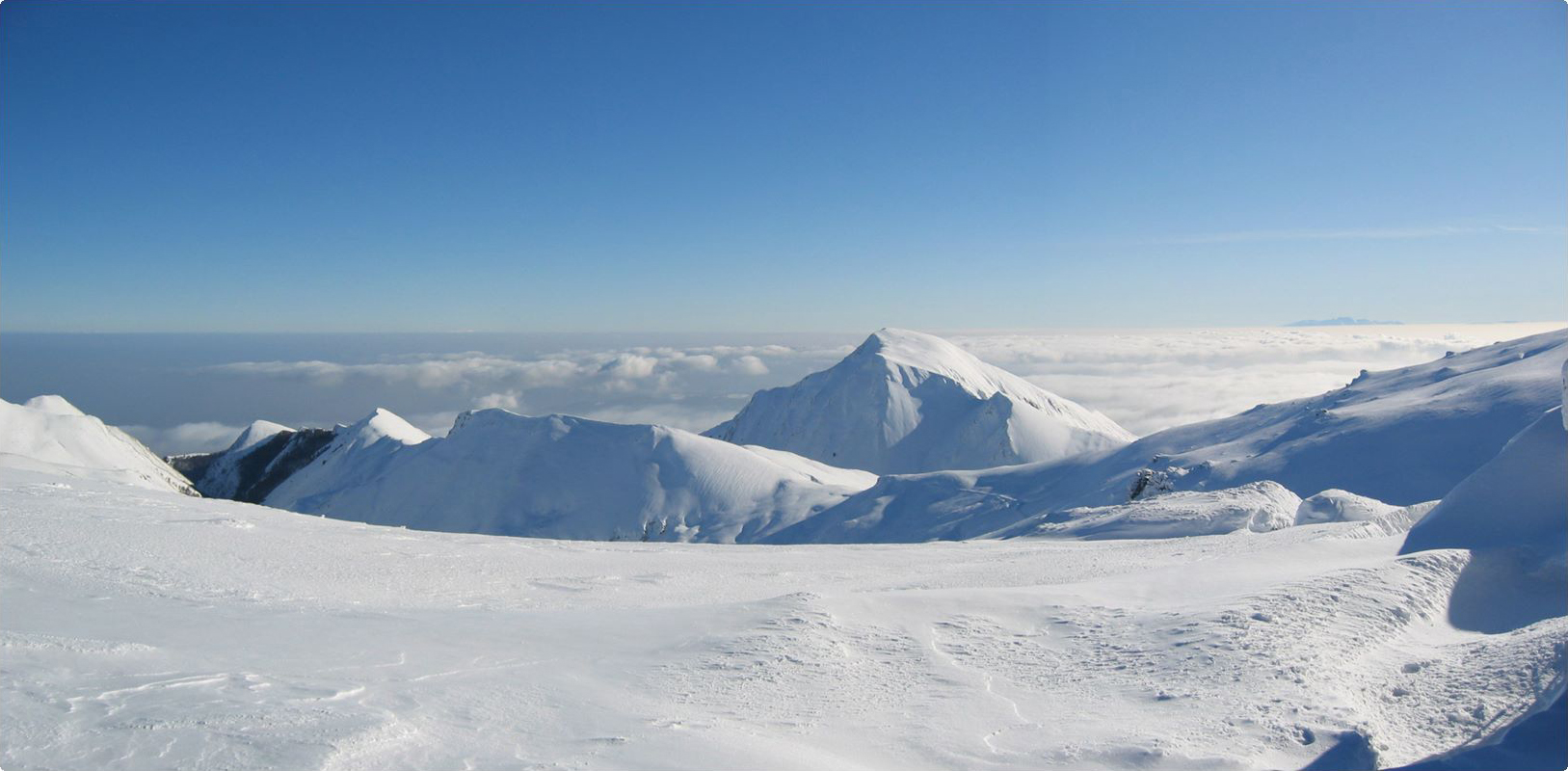 A panorama of Kožuf in Macedonia.